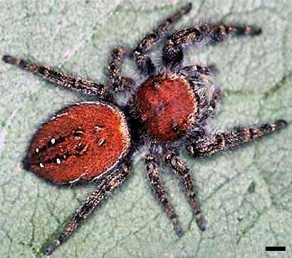 Female Phidippus cardinalis jumping spider from Ocala National Forest, Marion County, Florida, USA